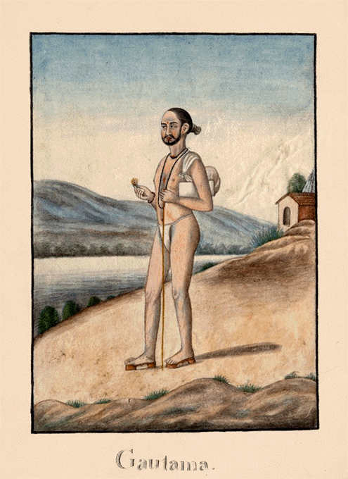 Ghhcfhh